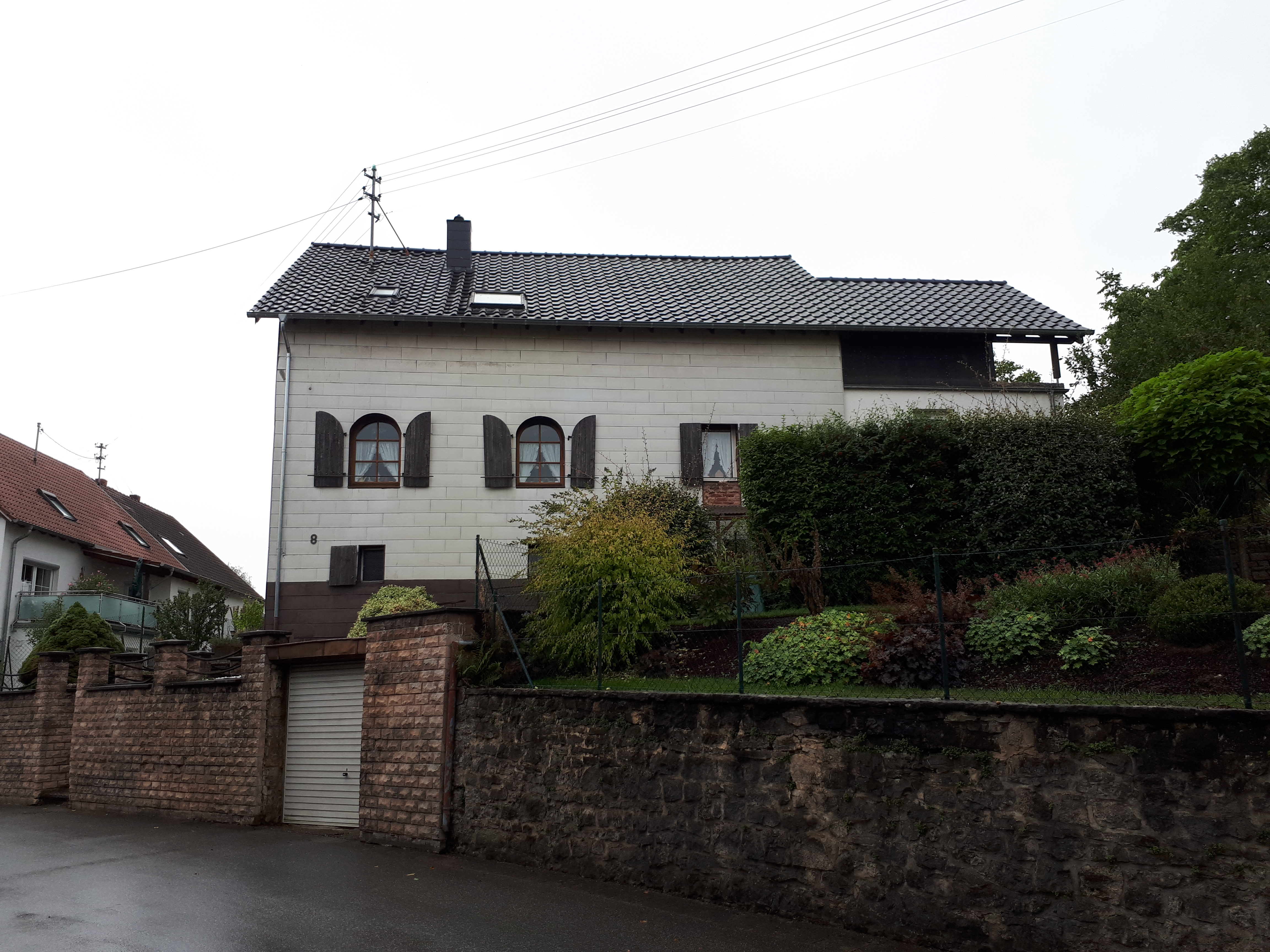 Former synagogue in Gersheim